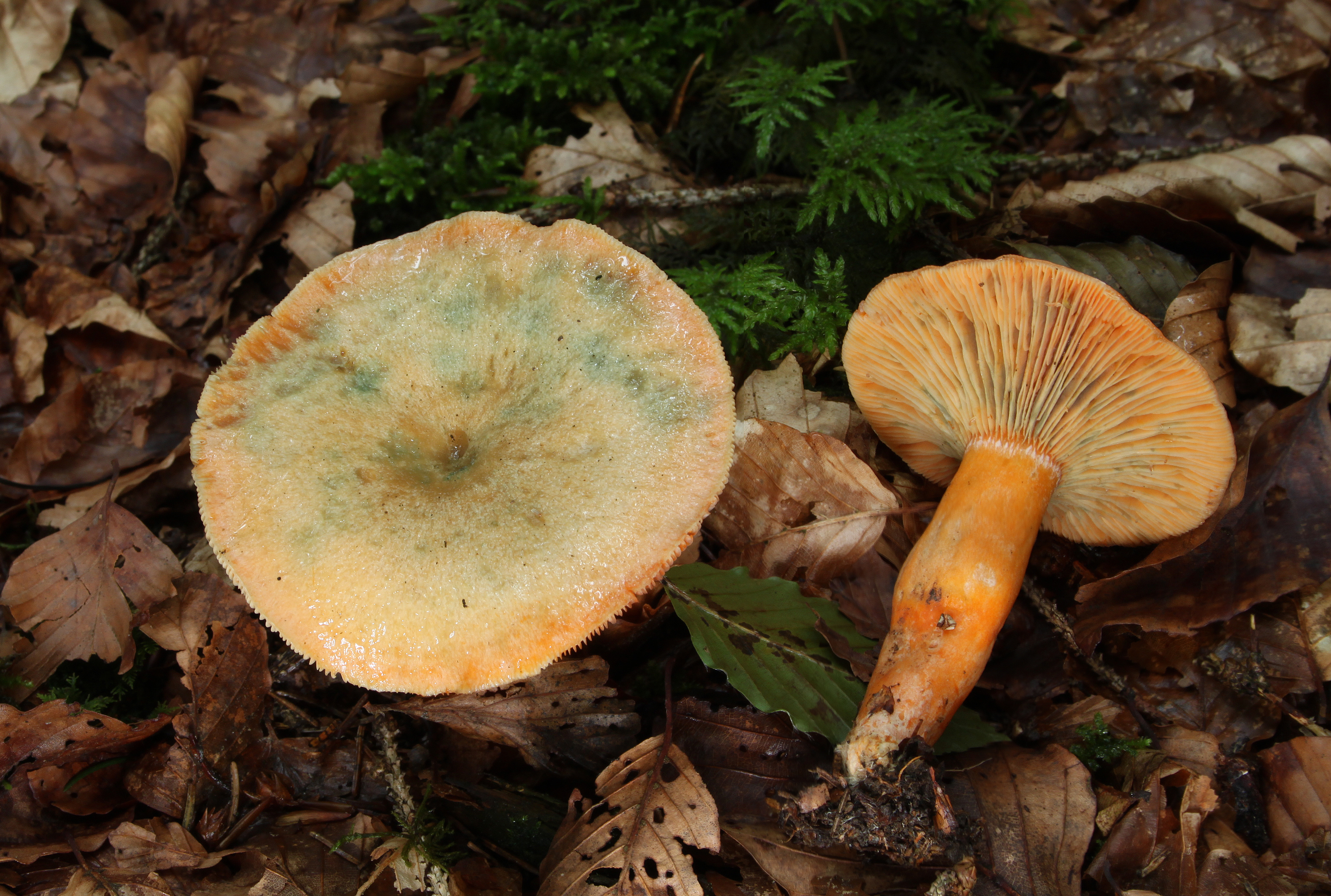 Lactarius deterrimus, Family: Russulaceae, Location: Southern Germany, Ulm, Eggingen